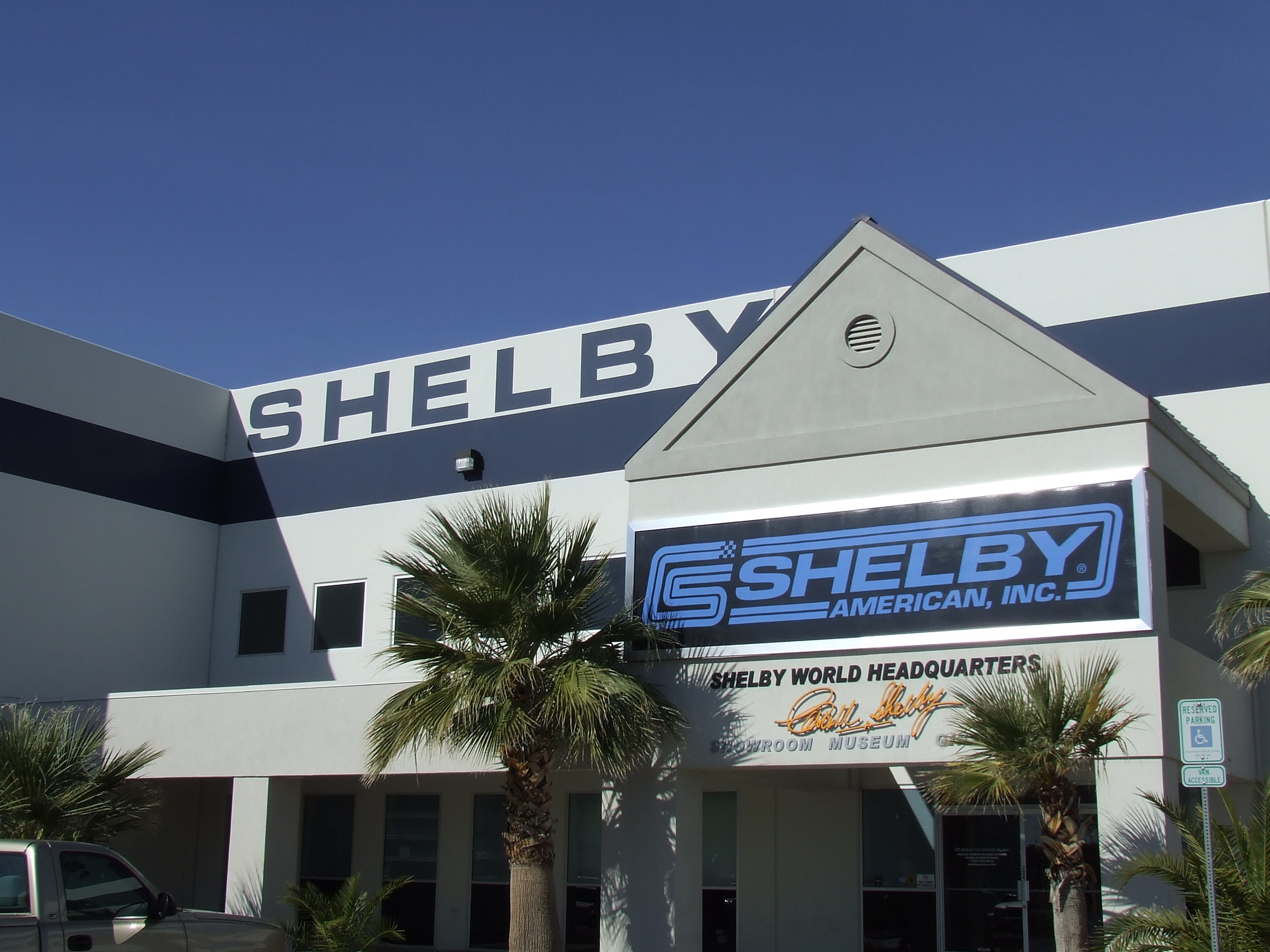 Main entrance, Carroll Shelby International, Las Vegas, NV